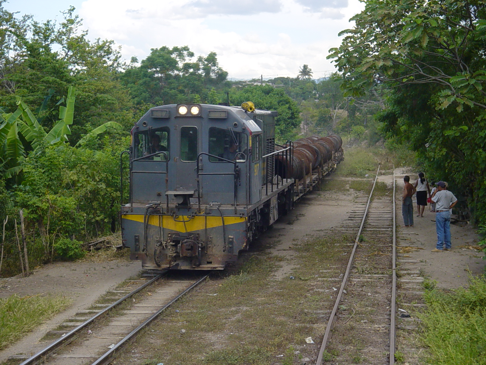 Freight train of Ferrovías Guatemala, going from El Rancho to Guatemala City, arrives at Sanarate station to meet an opposite train.